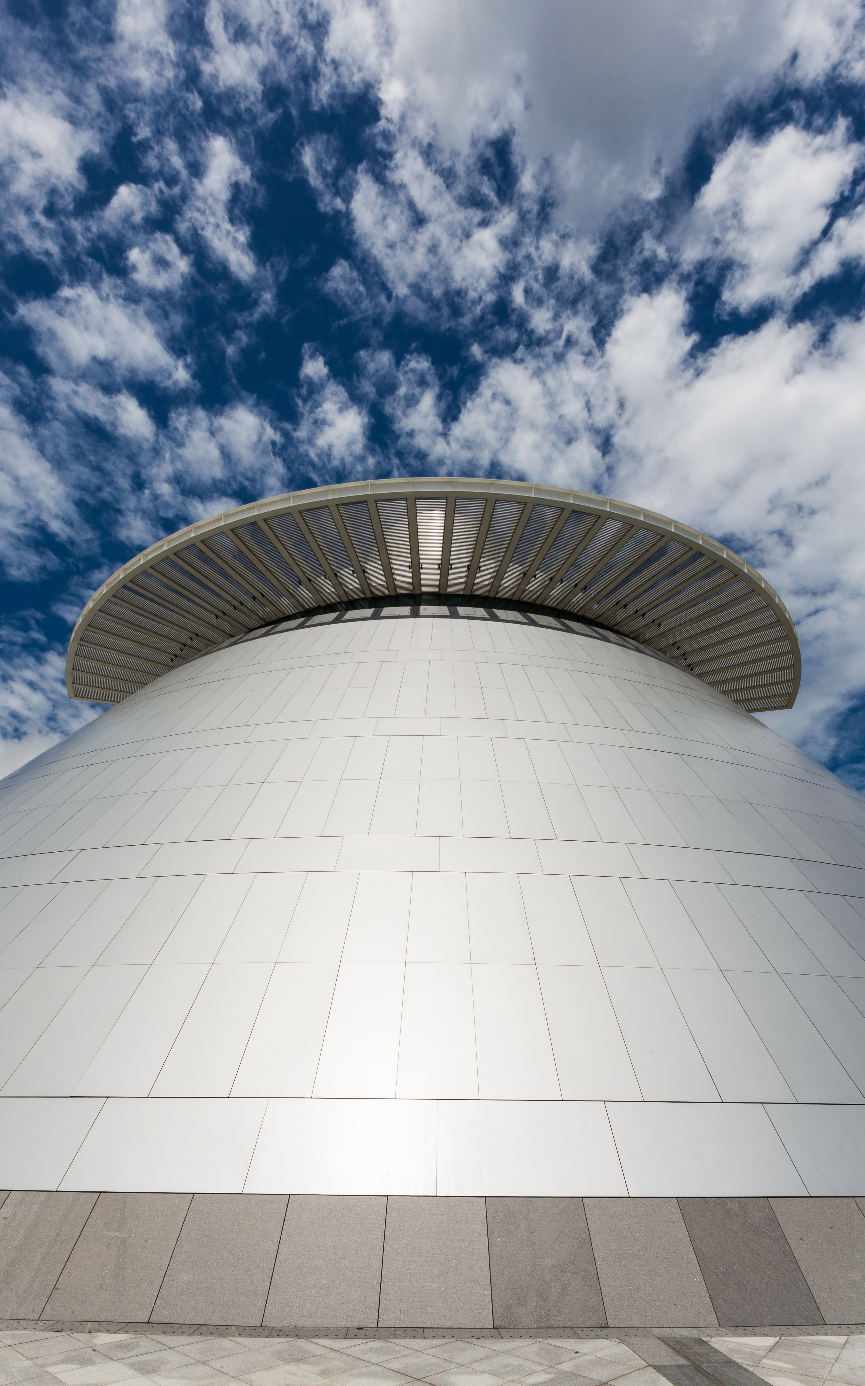 Macau Science Center